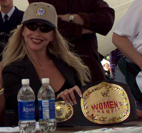 Women's World Wrestling Federation Champion Debra takes a moment out of her autographing session to pose for the cameras. WWF wrestlers were guest of the Coast Guard at the annual airshow held on Andrews AFB.